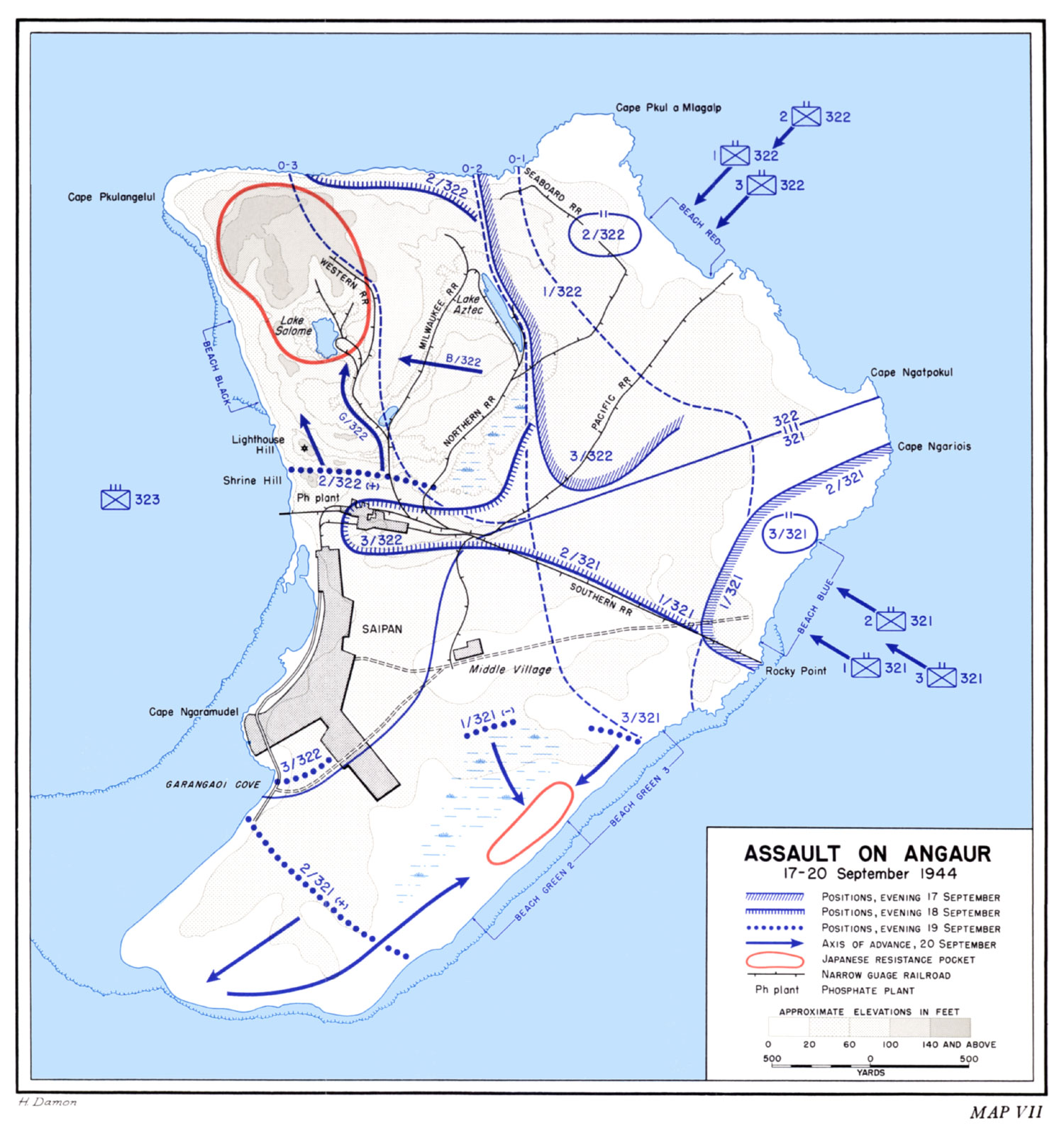 Map of the Battle of Angaur